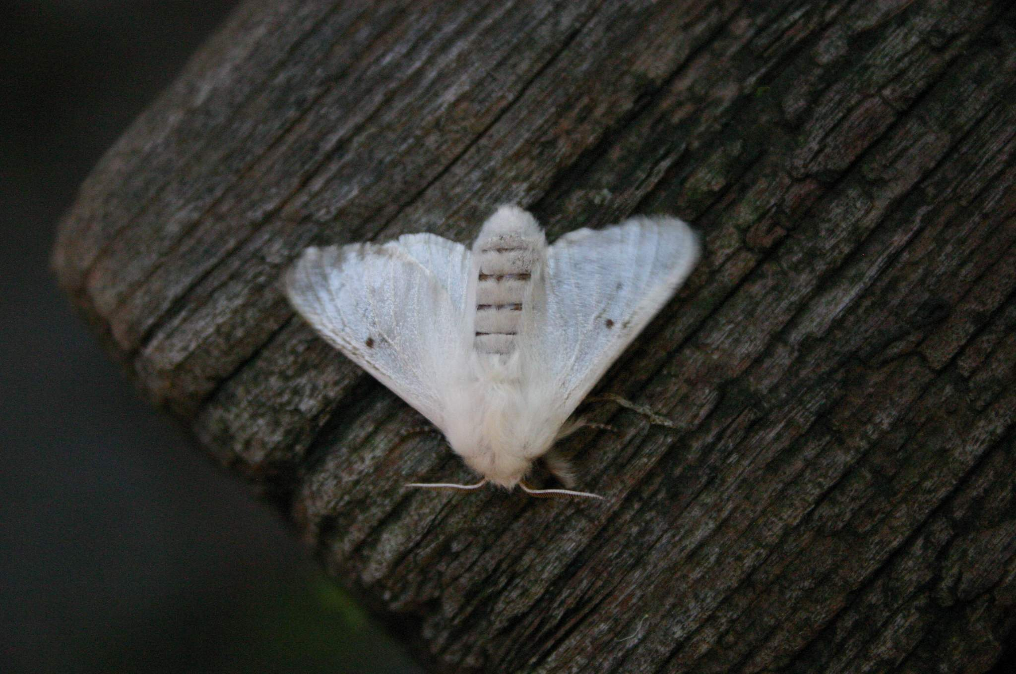 Adult moth of Bombycomorpha bifascia - Chucklenook, Honeydew, Johannesburg